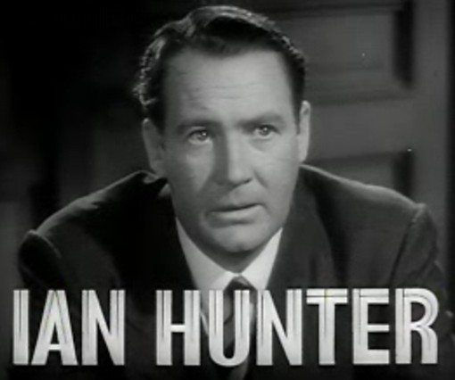 Cropped screenshot of Ian Hunter from the trailer for the film Gallant Sons